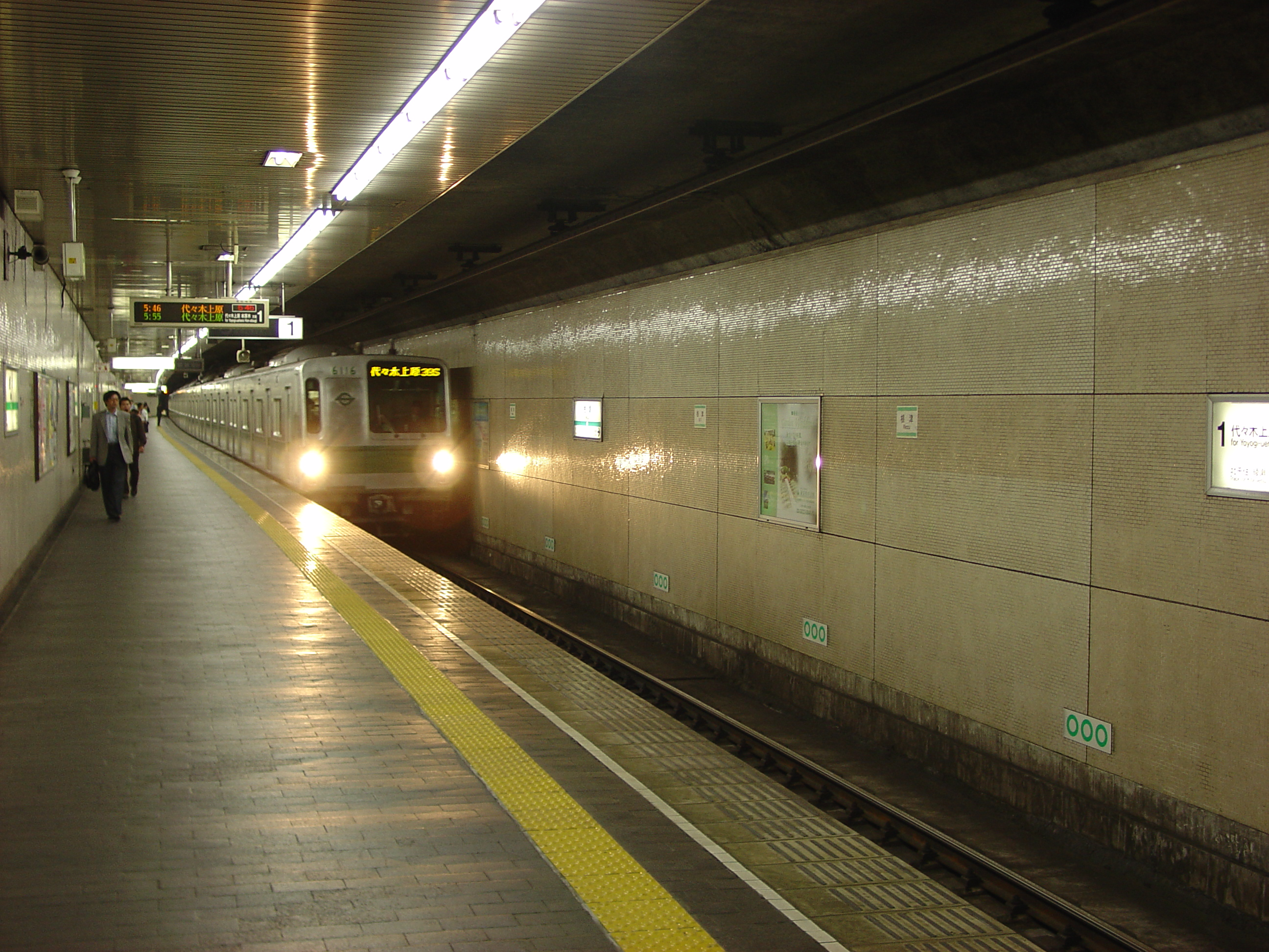 Interior of Nezu Station, Tokyo, Japan, Platform 1 (Towards Otemachi, Harajuku) taken 5:45am 29 March 2003 with a Sony Mavica. Taken by Alex Sims.